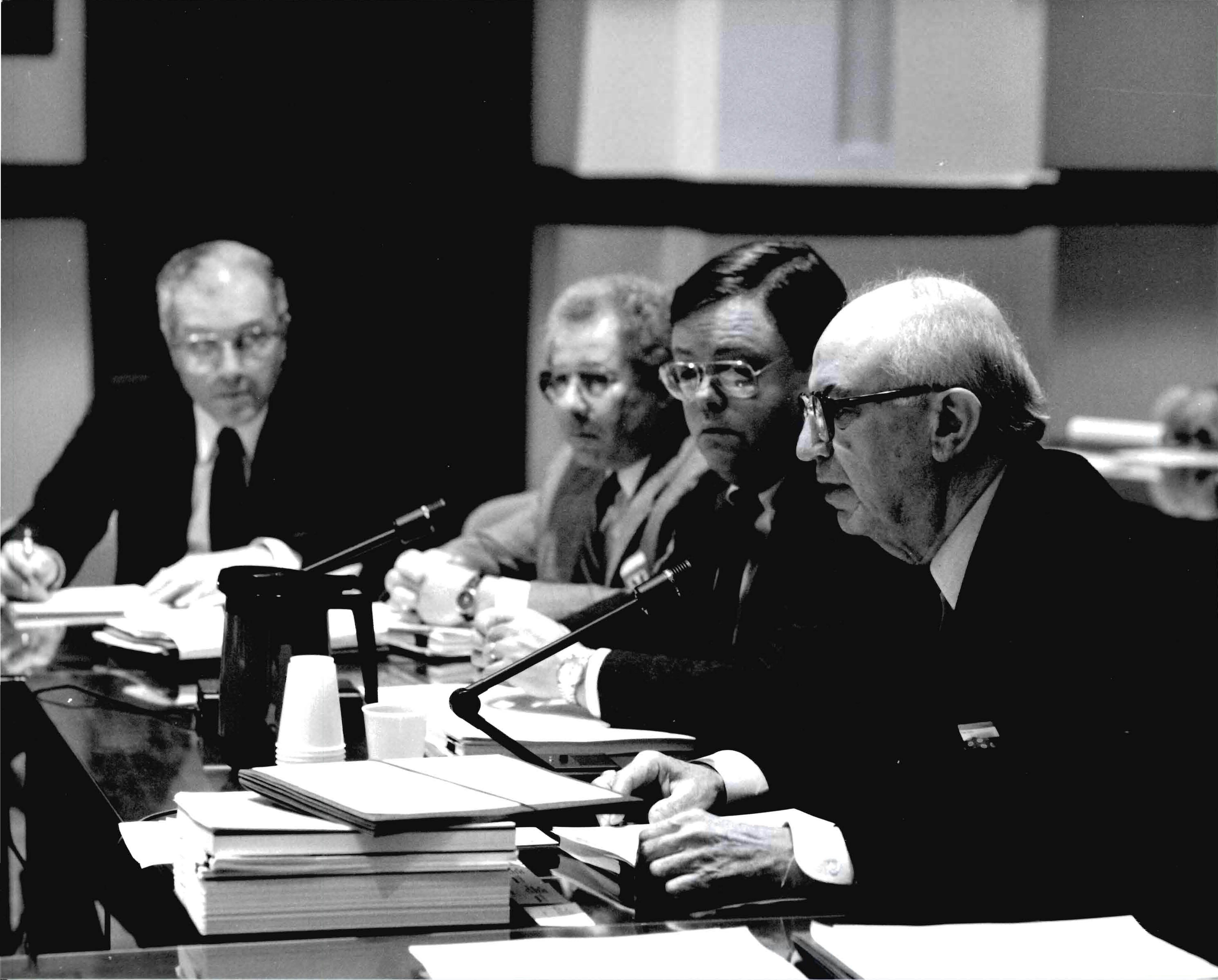 Eugene Stewart giving testimony before the International Trade Commission.